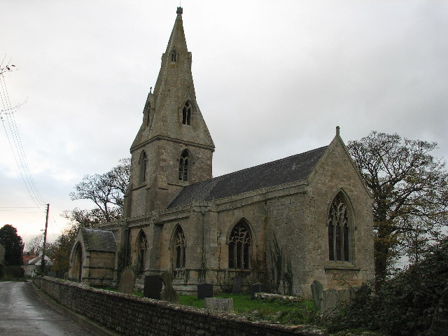 Parish church of St Thomas Of Canterbury, Aunsby, Lincolnshire, seen from the southeast